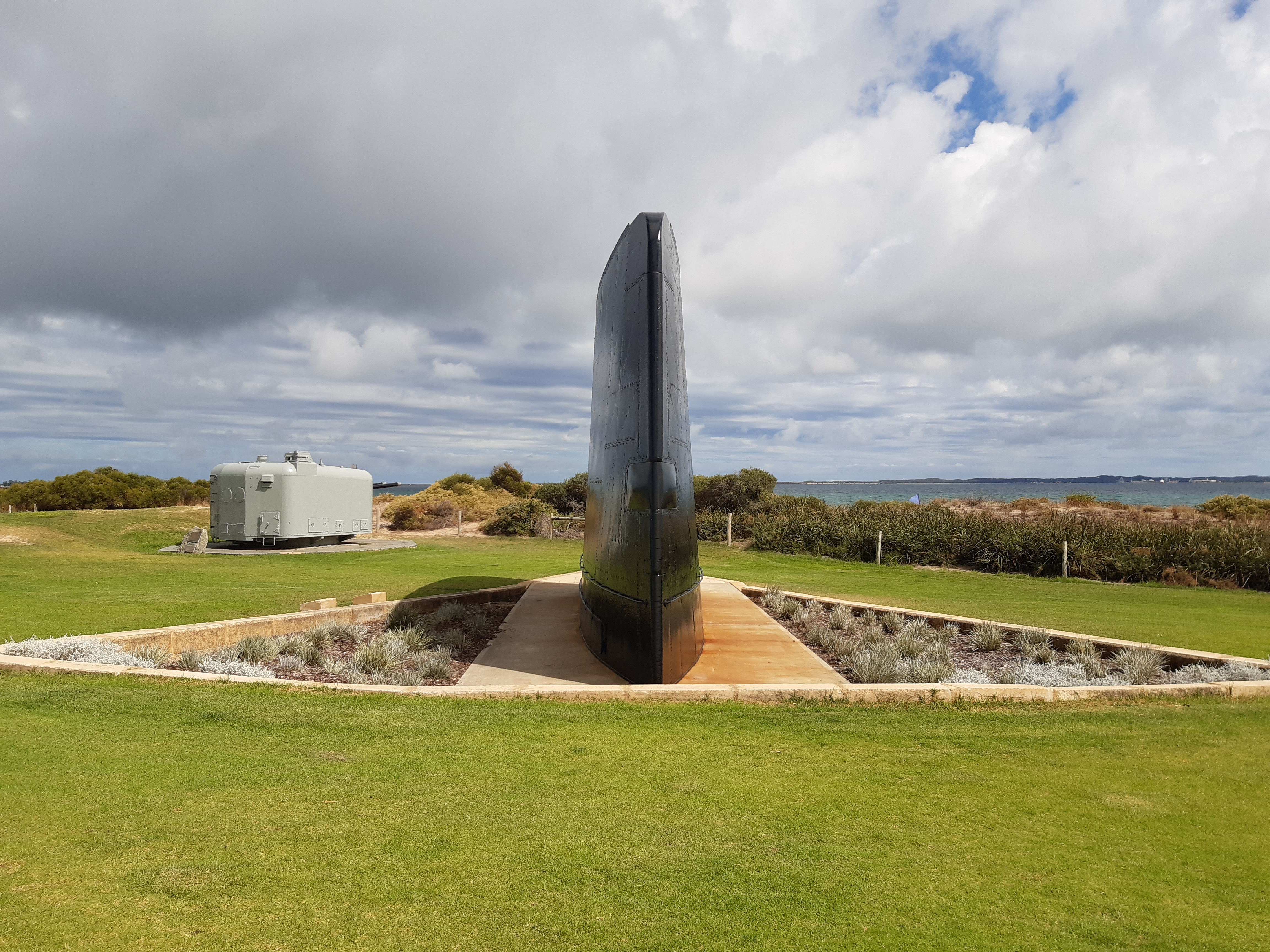 HMAS Orion memorial and HMAS Derwent (DE 49) gun turret, Rockingham Naval Memorial Park, Western Australia.